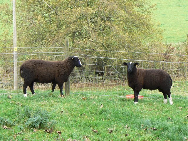 Zwartbles sheep In a field near Craigrothie. Zwartbles is a Dutch breed of sheep. The meat from Zwartbles sheep is very lean and sweet. Zwartbles are a docile and friendly sheep and are 'naturally polled' (i.e. they have no horns).